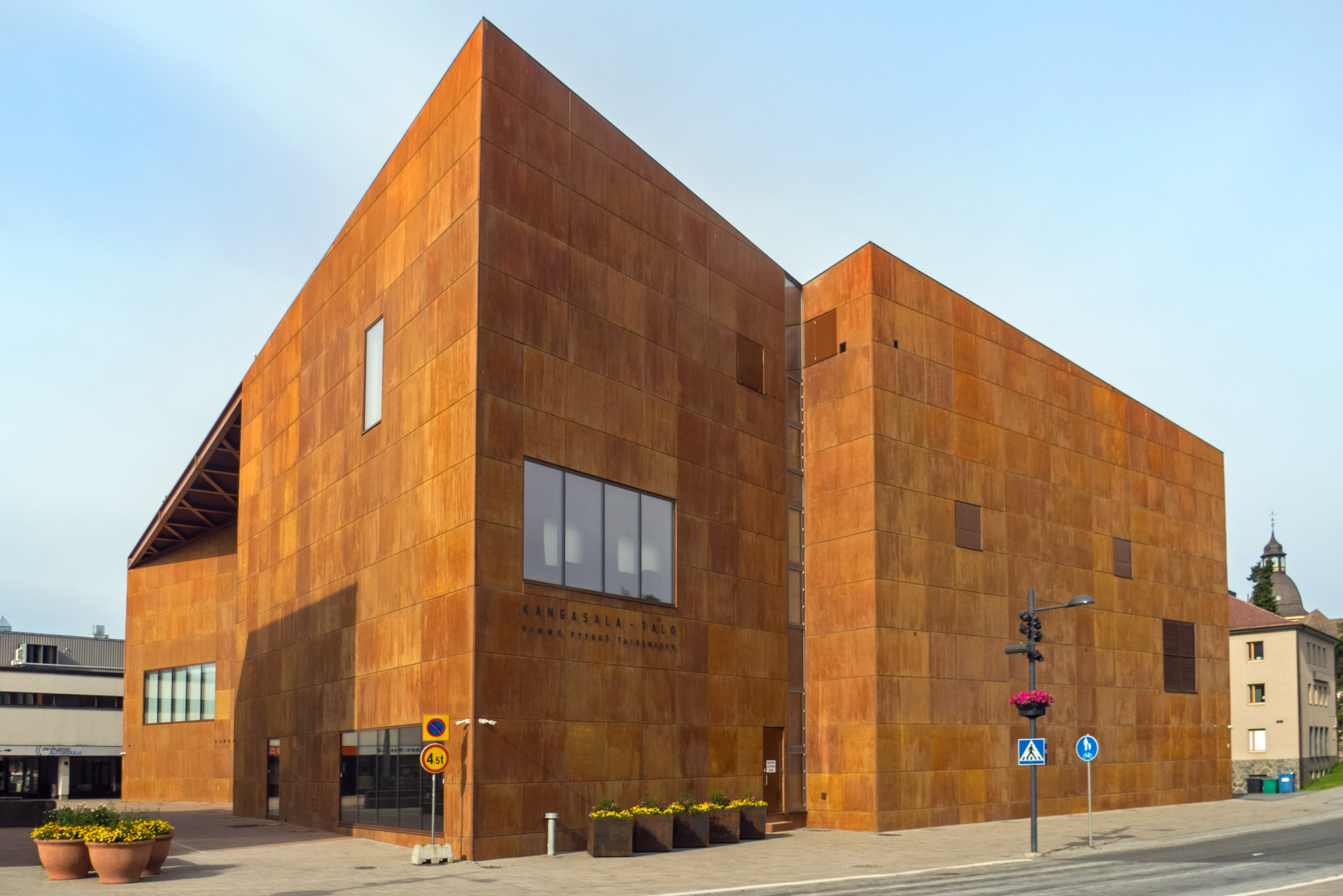 Kangasala-talo, cultural building in Kangasala, Finland, by Heikkinen & Komonen Architects.